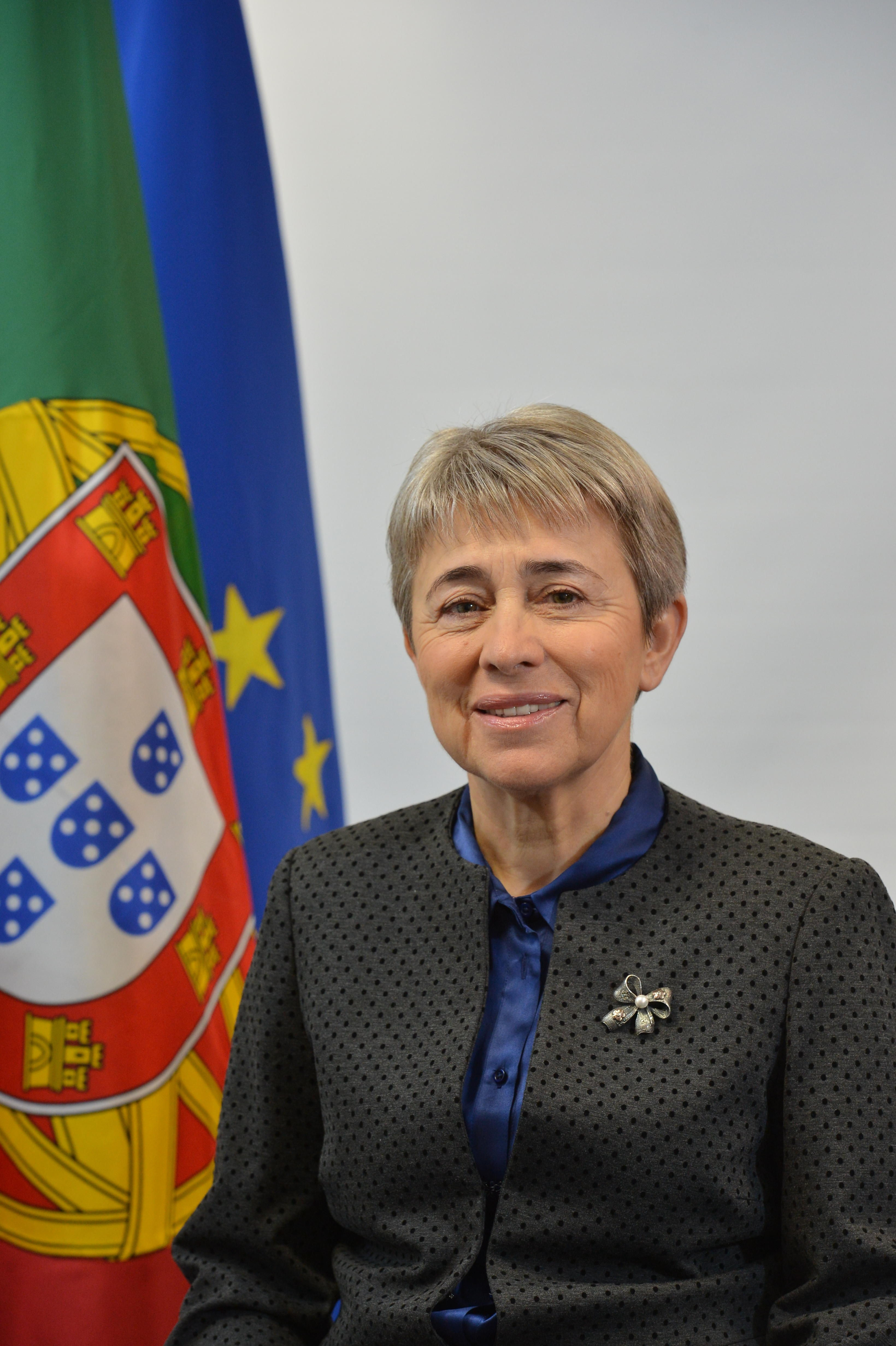 Foto Oficial SECP